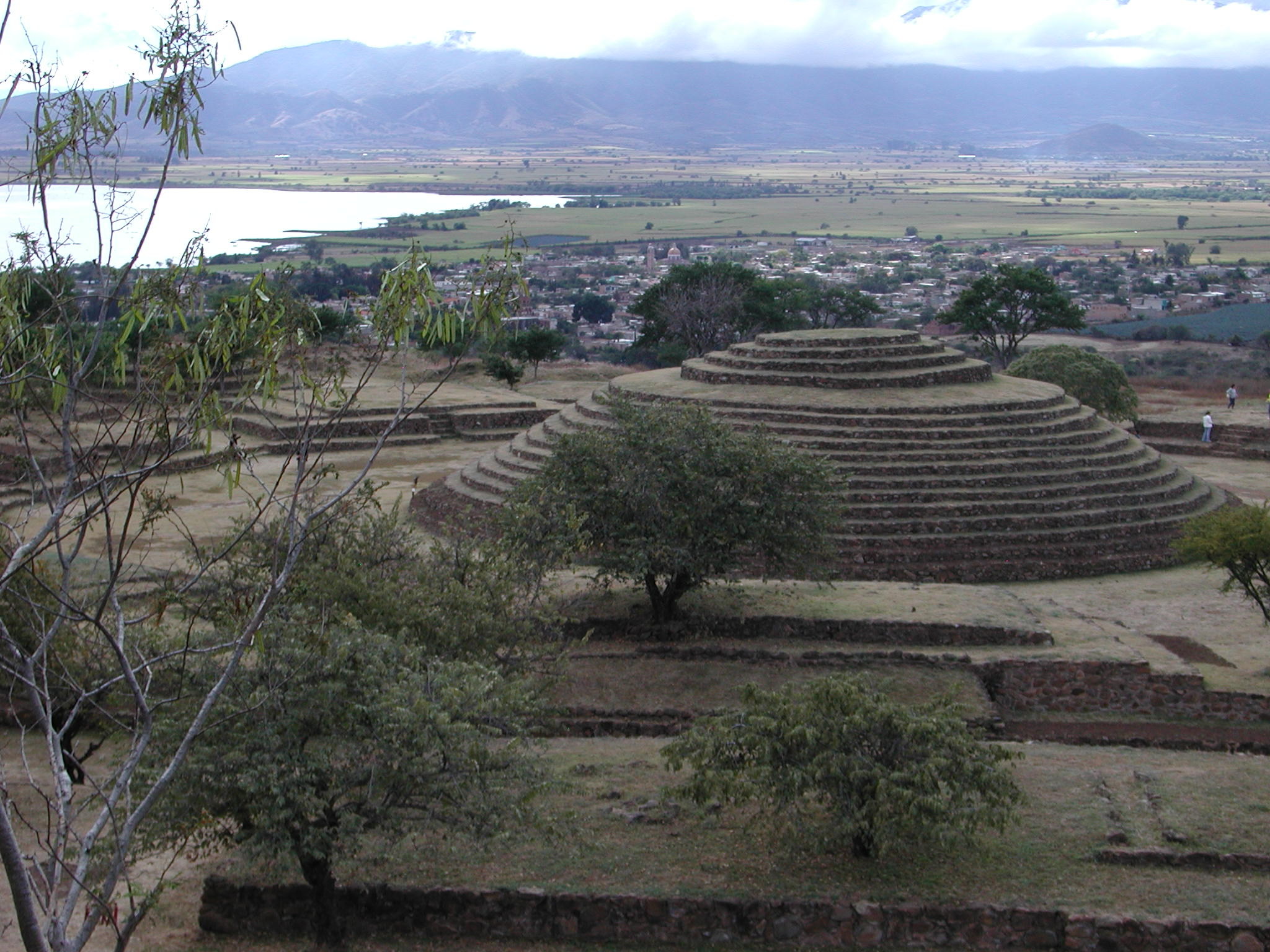 Huachimontones ceremonial site called Site 2. Here you can see part of the site, based on concentric circles. In the centre you can appreciate the circular pyramid and around it part of the plataforms surrounding it. Beneath these platforms there are shaft tombs. I took the pictures myself hope you find them useful and enjoy them